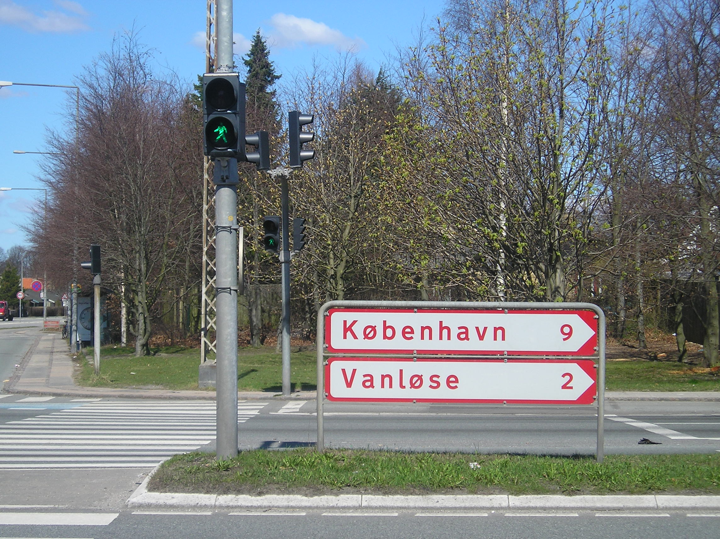 Direction signs at the junction of Jyllingevej and Tårnvej in Rødovre, Denmark, pointing east towards Vanløse and Copenhagen city centre.